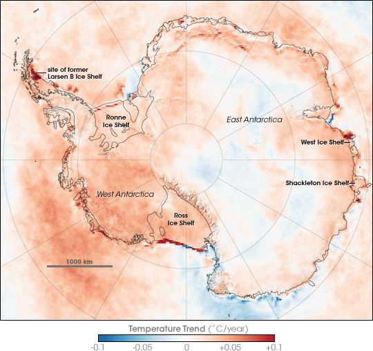 Map showing Antarctic Skin Temperature Trends between 1981 and 2007. Skin temperature is roughly the top one millimeter of land, sea, snow, or ice. Across most of the Antarctic the temperature increased, in some areas warming approaching 2 degrees Celsius during the period. The map is based on thermal infrared (heat) observations made by a series of NOAA satellite sensors. None of the sensors were in orbit at the same time, so scientists could not compare simultaneous observations from different sensors to make sure each was recording temperatures exactly the same. Instead, the team checked the satellite records against ground-based weather station data to inter-calibrate them and make the 26-year satellite record. The level of uncertainty is between 2 and 3 degrees Celsius. The most dramatic changes are the red areas associated with iceberg calving and the collapse of the Larsen B ice shelf. In these cases, the satellites saw a change from cold ice to relatively warm open water.